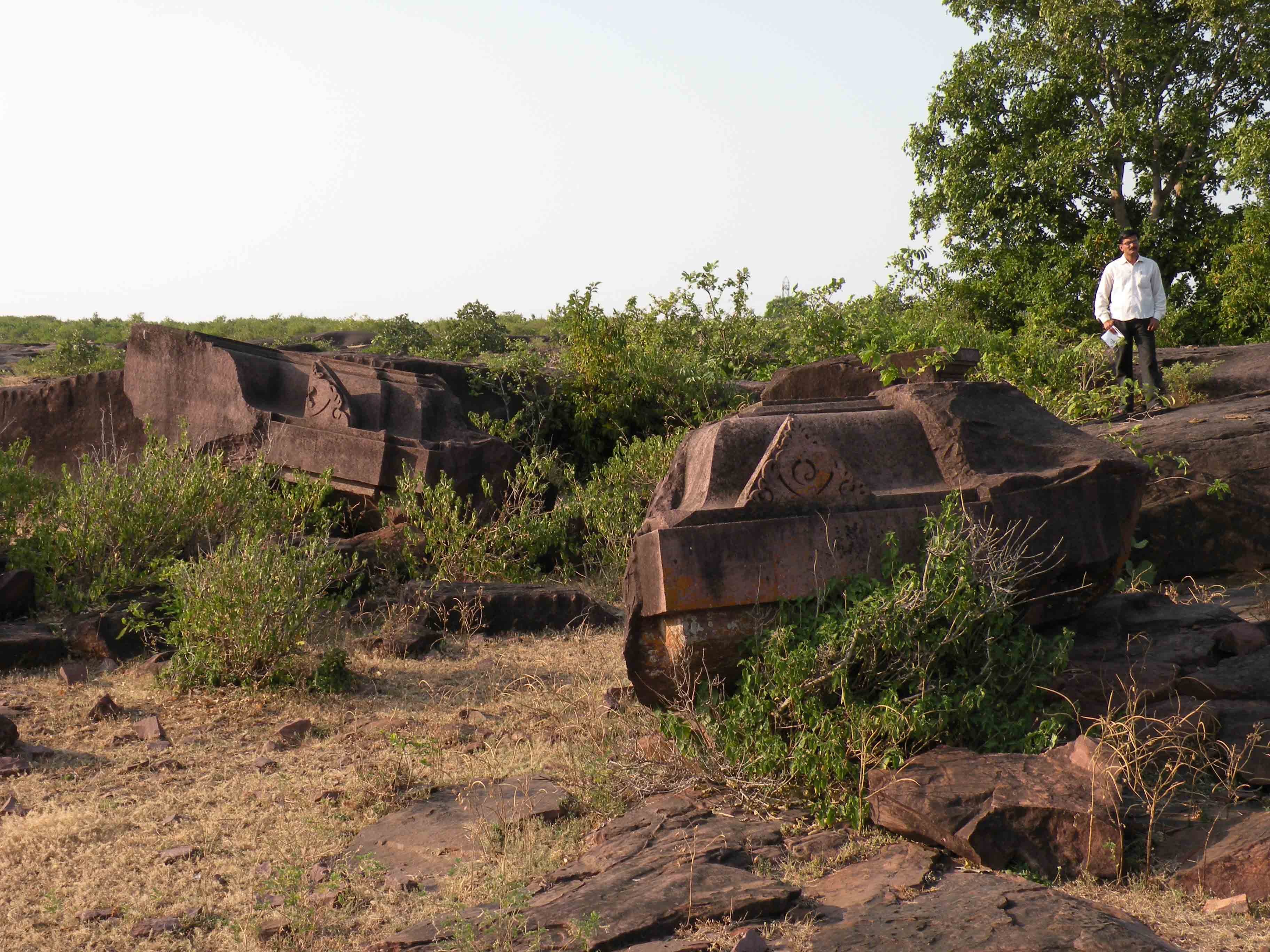 Architectural fragments in one of the quarries at Bhojpur, Madhya Pradesh, India.